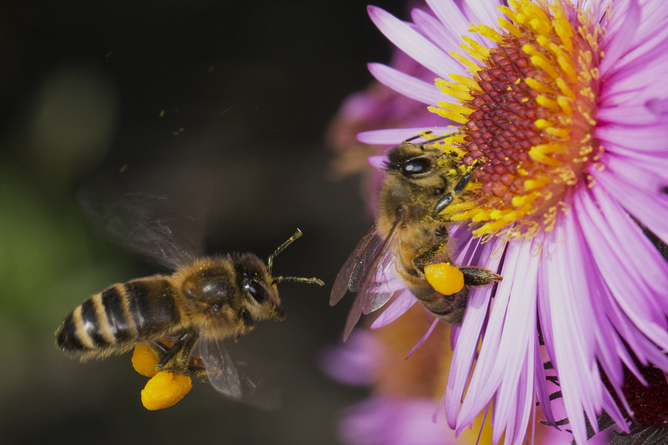 The western honey bee, Lodz (Poland)